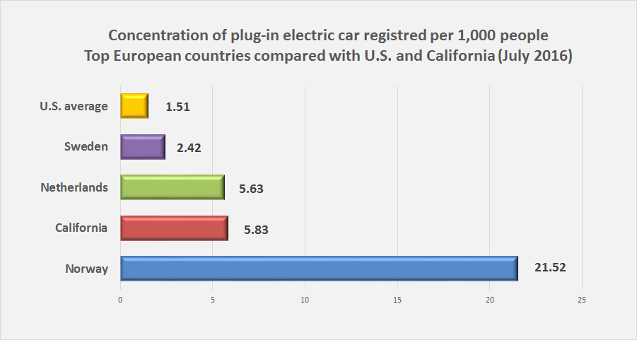 Comparison among top selling plug-in electric cars (PEV) countries in terms of concentration of registered PEVs per 1,000 people. Figures as of July 2016. Data source: .